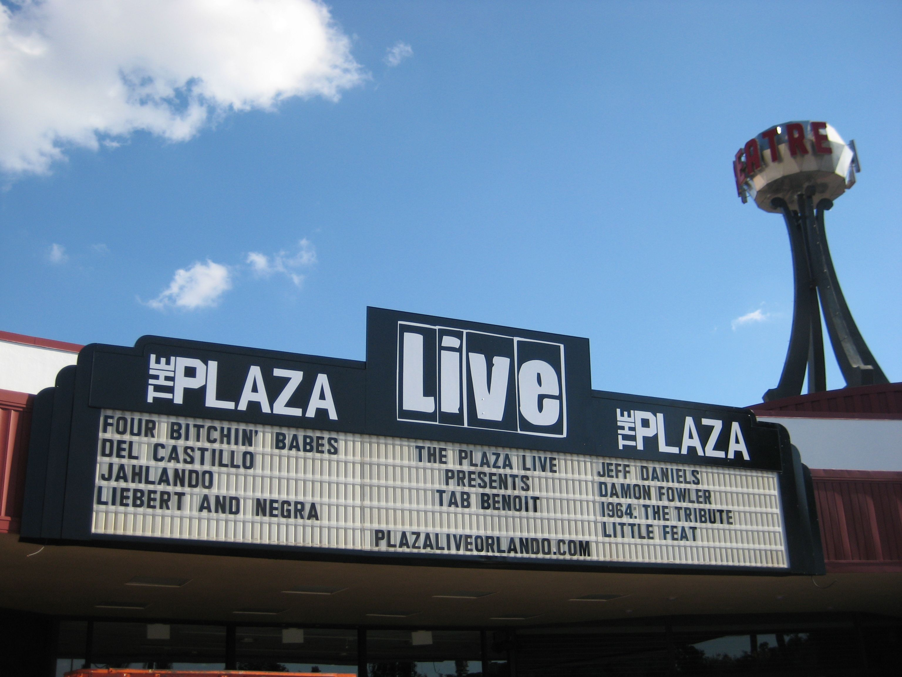 This is the front entrance to the Plaza Live.